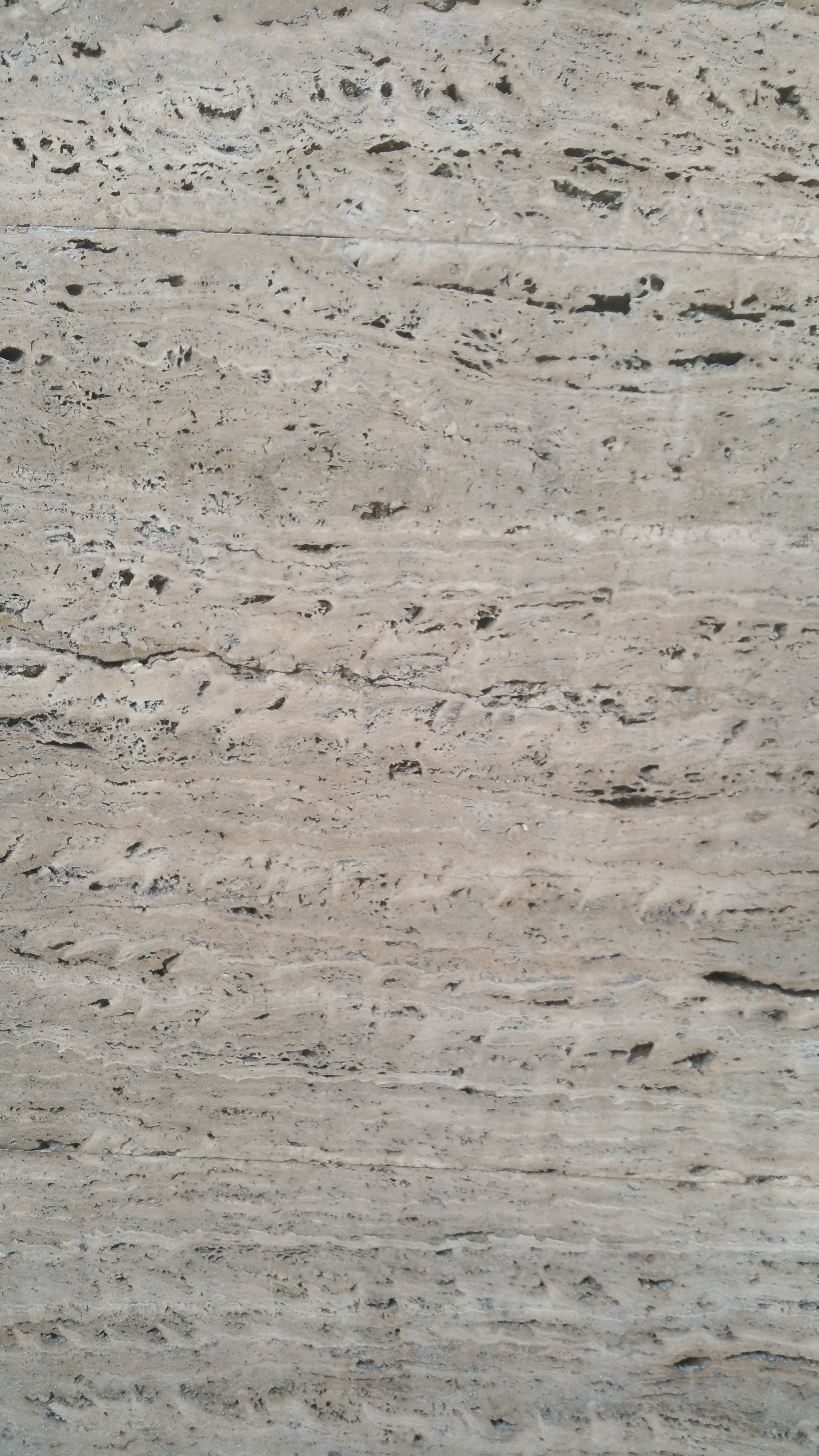 Tufa stone façade in Prague